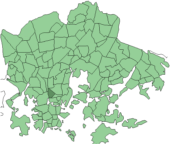 Districts of Helsinki, Alppila highlighted